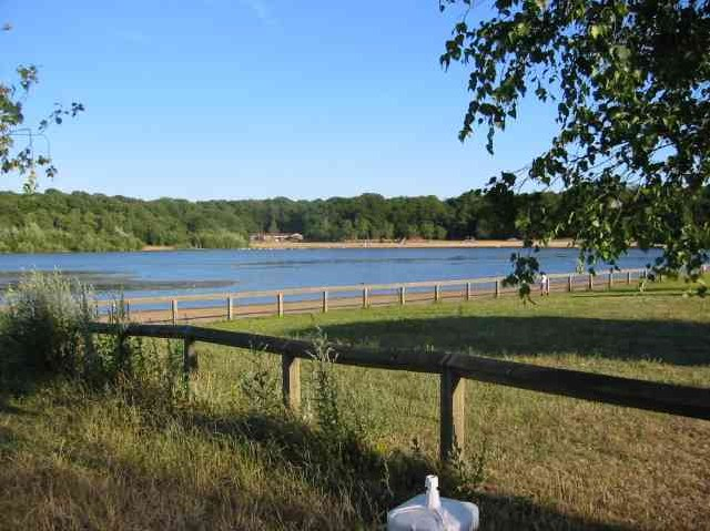 Ruislip Lido. This view shows the beach alongside the dam The water is for the canal system